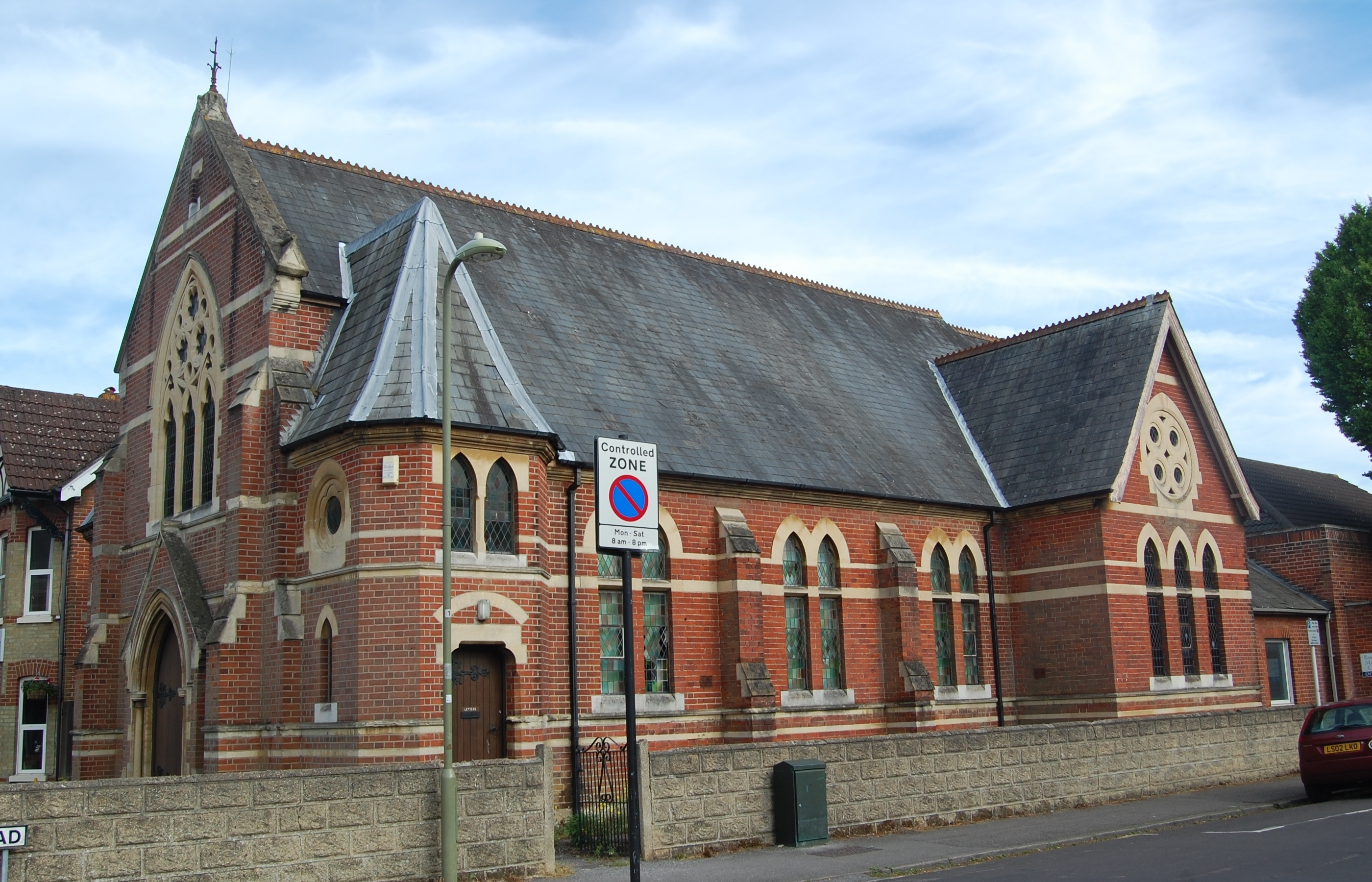 Former Methodist Church, Leigh Road, Eastleigh, Borough of Eastleigh, Hampshire, England. Now a Masonic centre.